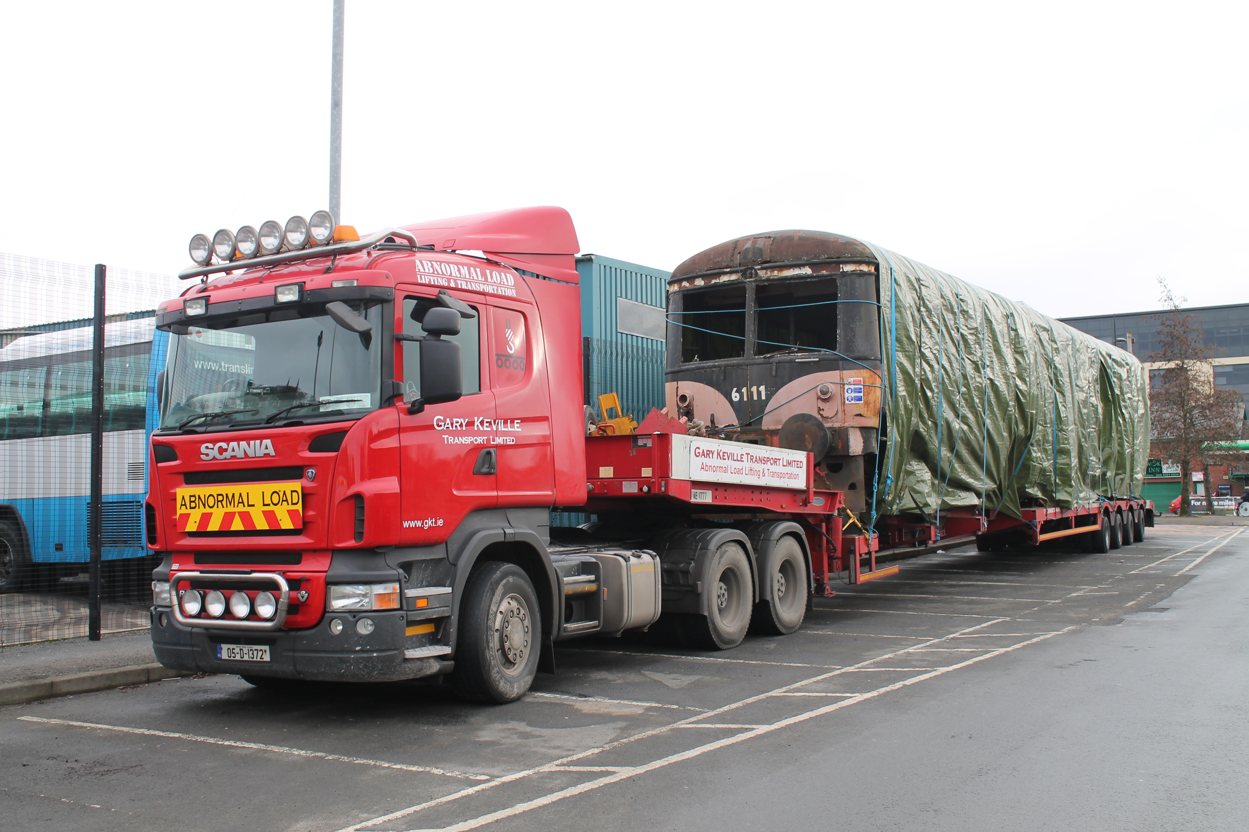 6111 Arrives at the DCDR